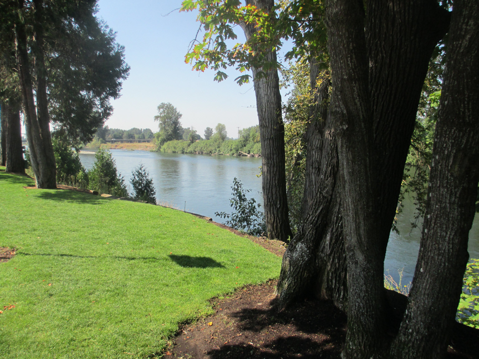 Last time I rode down Peoria Road in the Willamette Valley was in 1988. Nice rural bike ride.